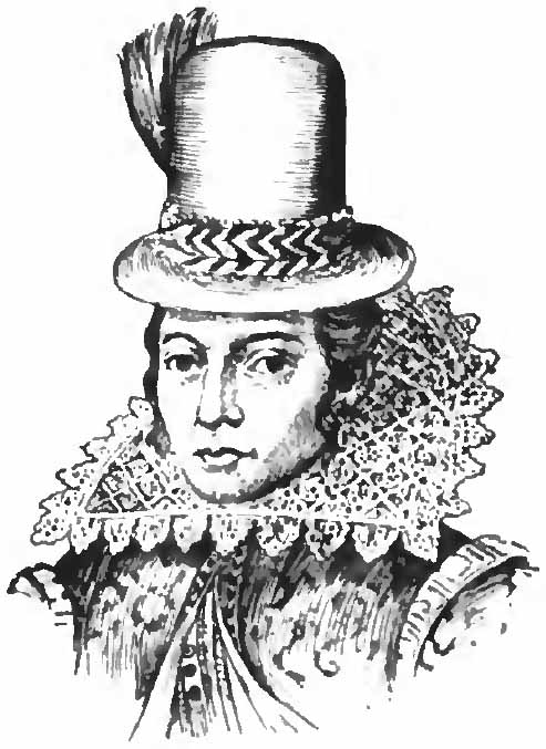 Portrait drawing of Pocahontas, daughter of Powhatan.